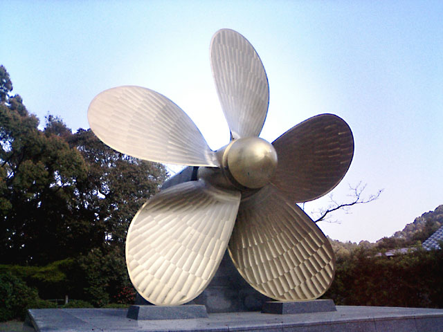 Ship propeller